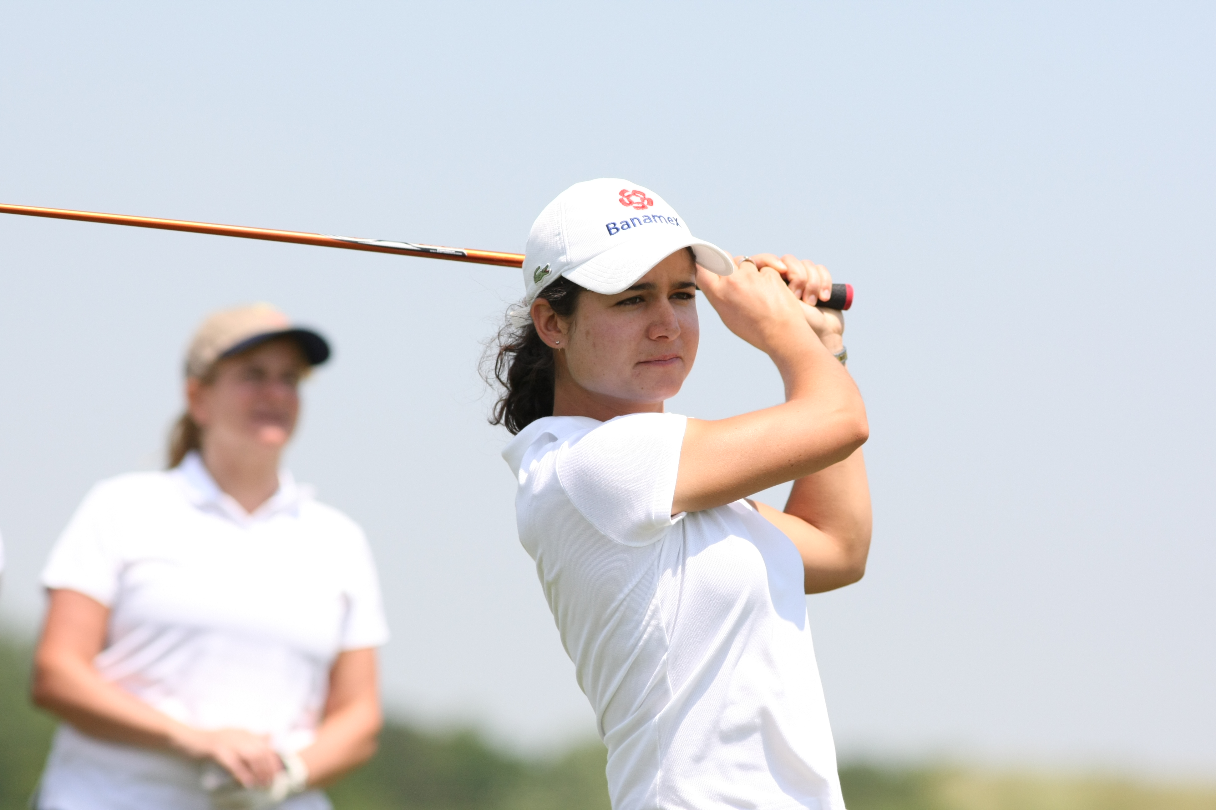 Lorena Ochoa (MEX) during pro-am before 2008 LPGA Championship.